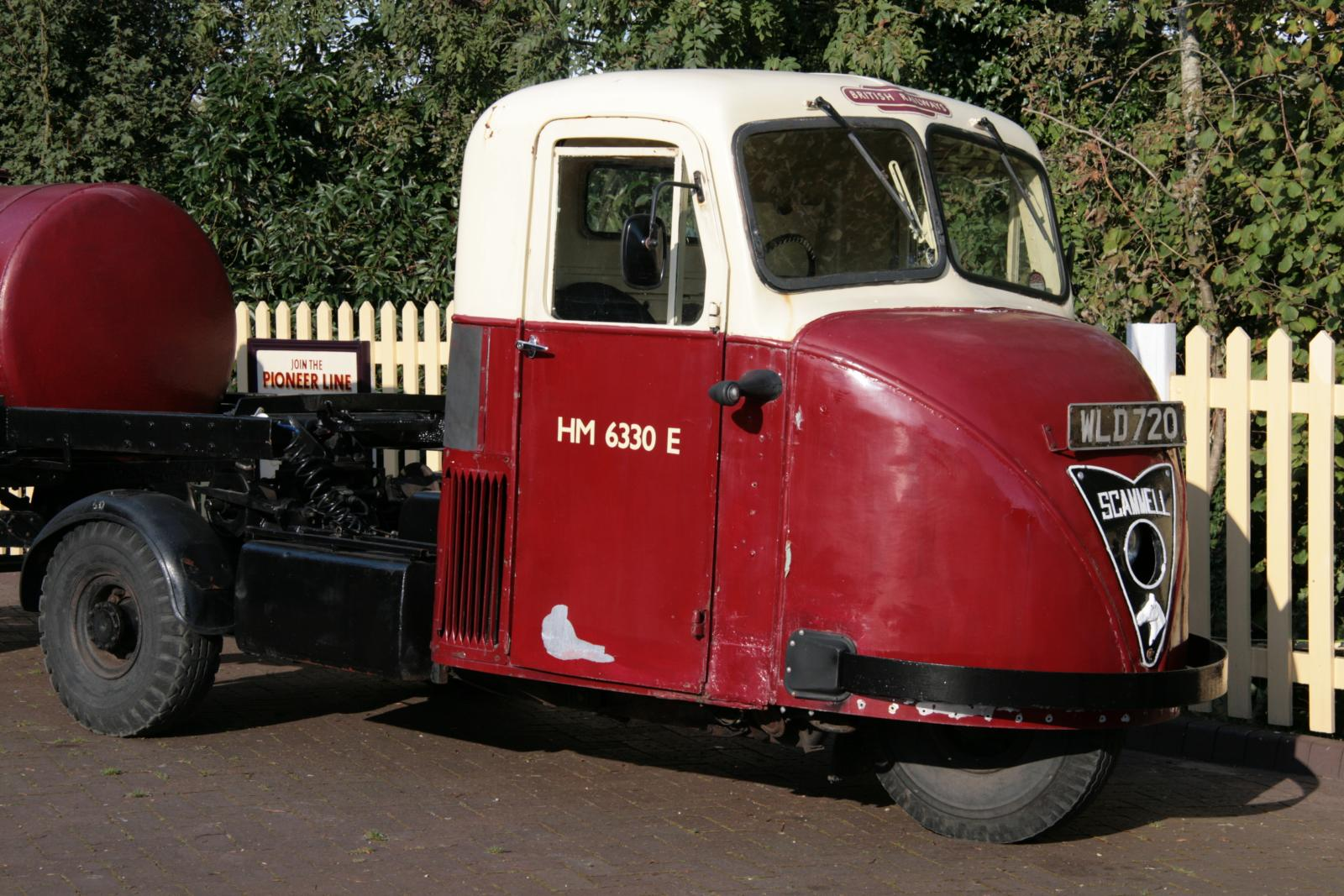 In 1960 the Bluebell Railway commenced train operation from Sheffield Park Station to just outside Horsted Keynes. Fifty years later we have extended our line to Kingscote and are now on the final leg of extending further into the old market town of East Grinstead. Our steam locomotive collection has grown from the original two locomotives (Numbers 55 "Stepney" and 323 "Bluebell") to a fleet of over thirty locomotives and one hundred carriages and wagons. Sheffield Park Station is the headquarters of the Railway and home to the Locomotive Department. Here you will find engines awaiting restoration or their next turn of duty. On Platform 1 you will find our large well stocked gift shop. Housed within the purpose built restaurant at is our real ale bar, The Bessemer Arms, named in honour of the local resident who first saved the line from closure. Horsted Keynes Station is a large country station and home to our award winning Carriage and Wagon Department who are responsible for restoring and maintaining our carriages. It is an ideal place to get married in our 1930's waiting room. Kingscote Station is a quiet country station, the current terminus of the railway and is restored to its British Railways 1950's condition.